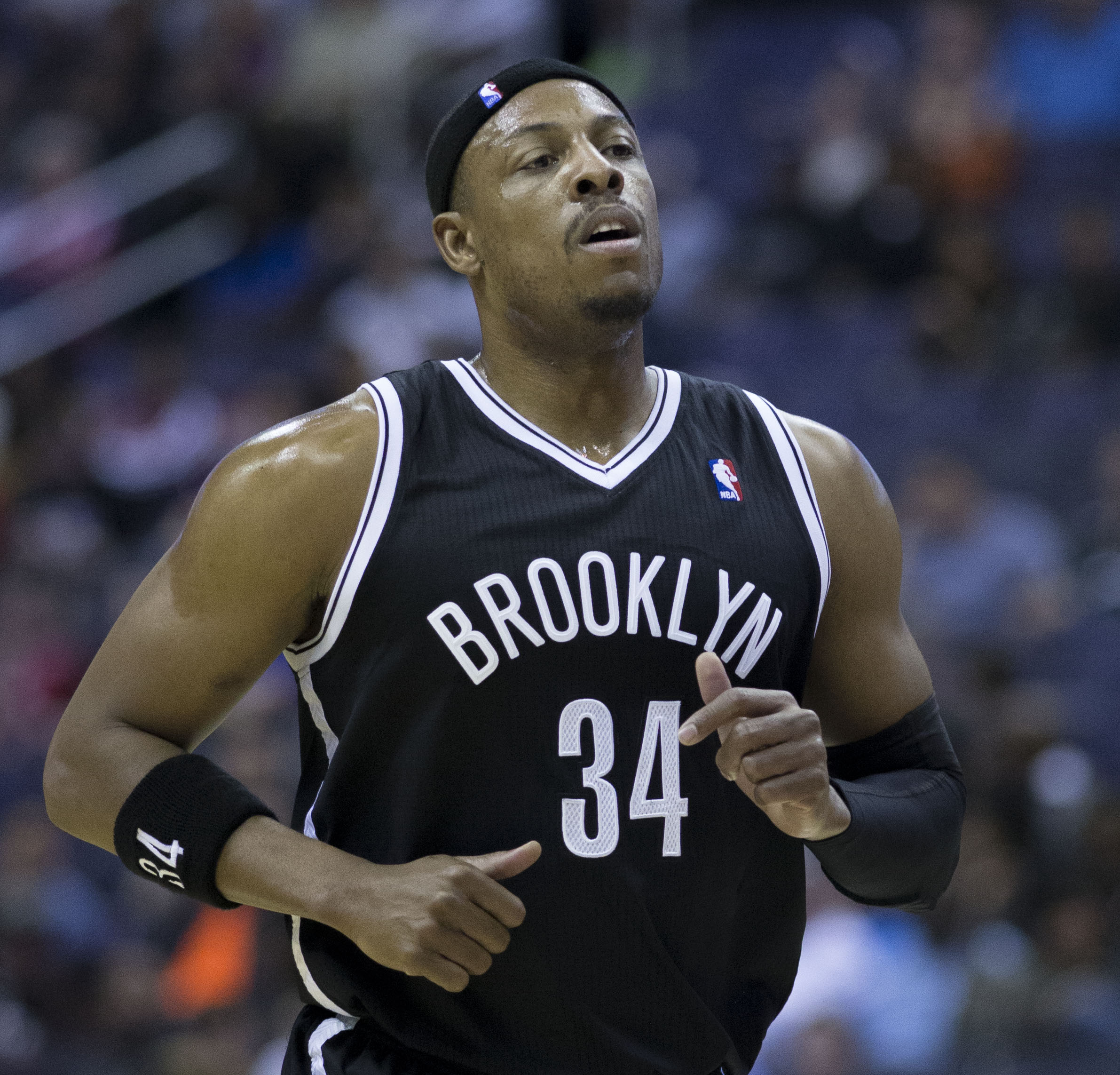 Nets at Wizards 3/15/14